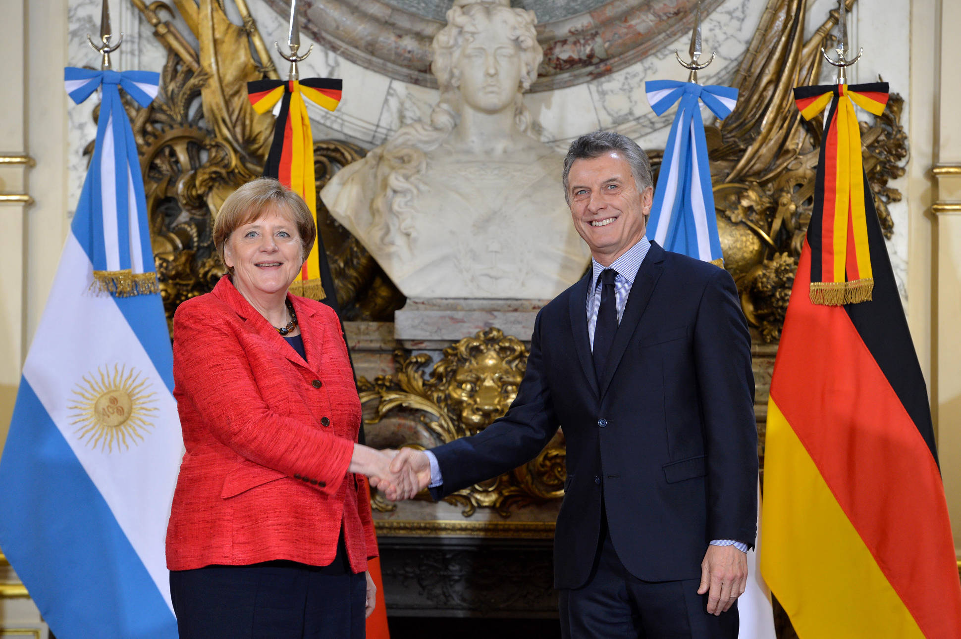 Angela Merkel with Mauricio Macri during a state visit of the German Chancellor to Argentina in June 2017.